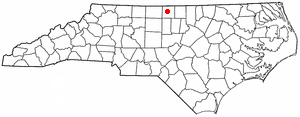 Category:North Carolina Dot Maps